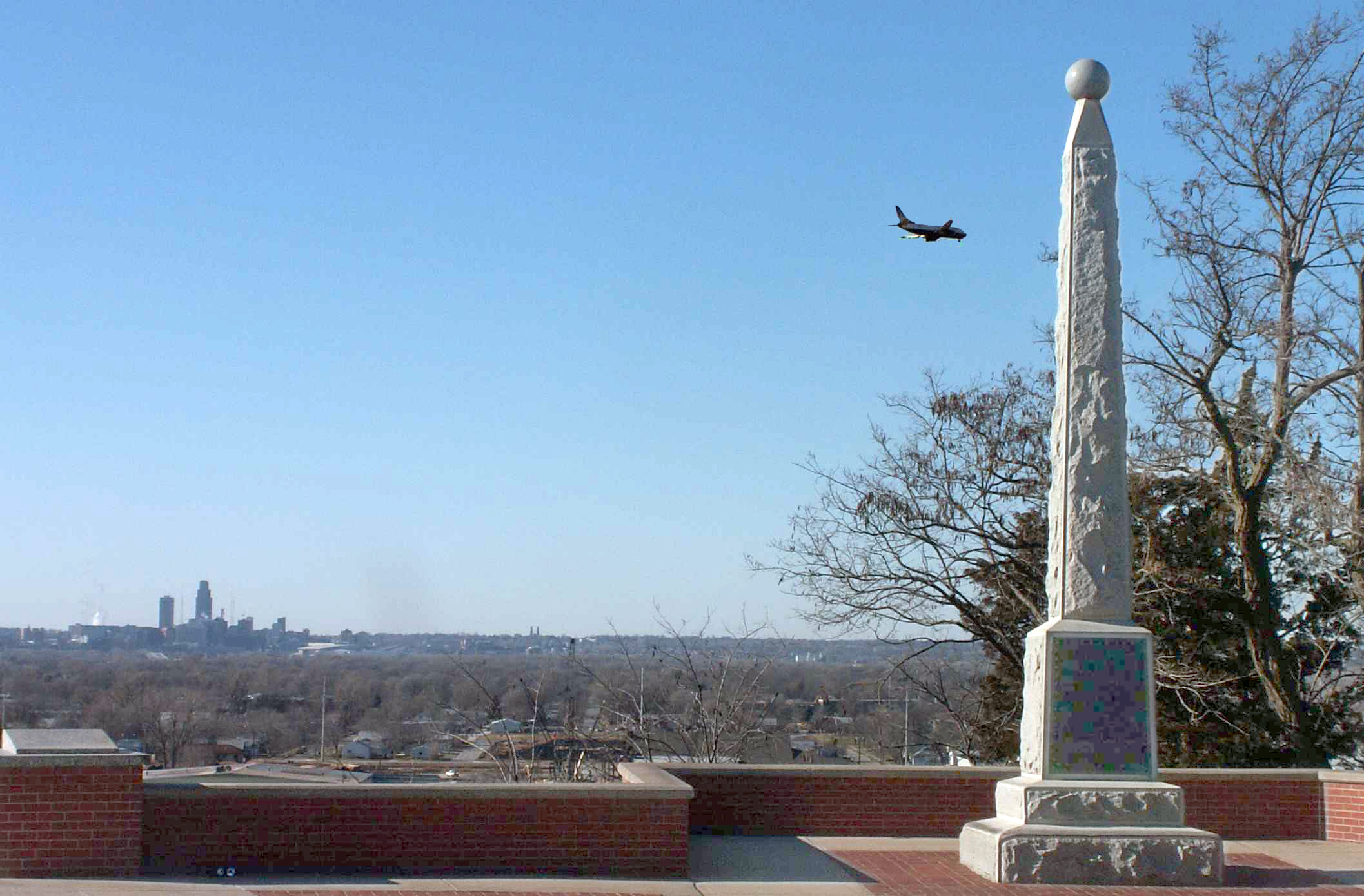 Lincoln Memorial at Fairview Cemetery in Council Bluffs looking towards Omaha with a jet coming into Eppley Airfield. Lincoln selected Council Bluffs as the eastern terminal of the First Transcontinental Railroad after visiting here. Photo by poster in December 2006.